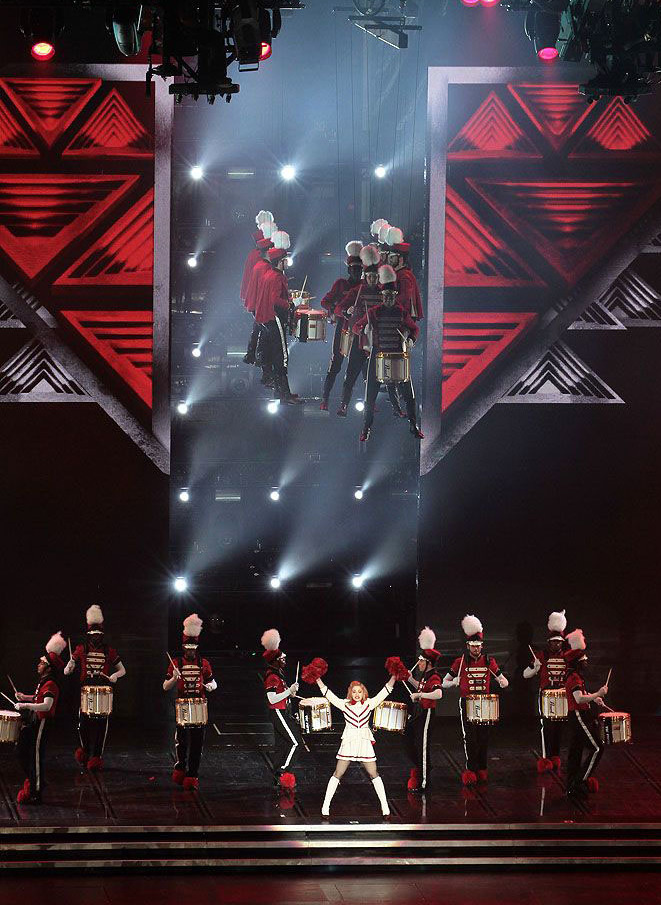 Madonna MDNA Tour Milano (C) Chinellato Matteo - ChinellatoPhoto 2012